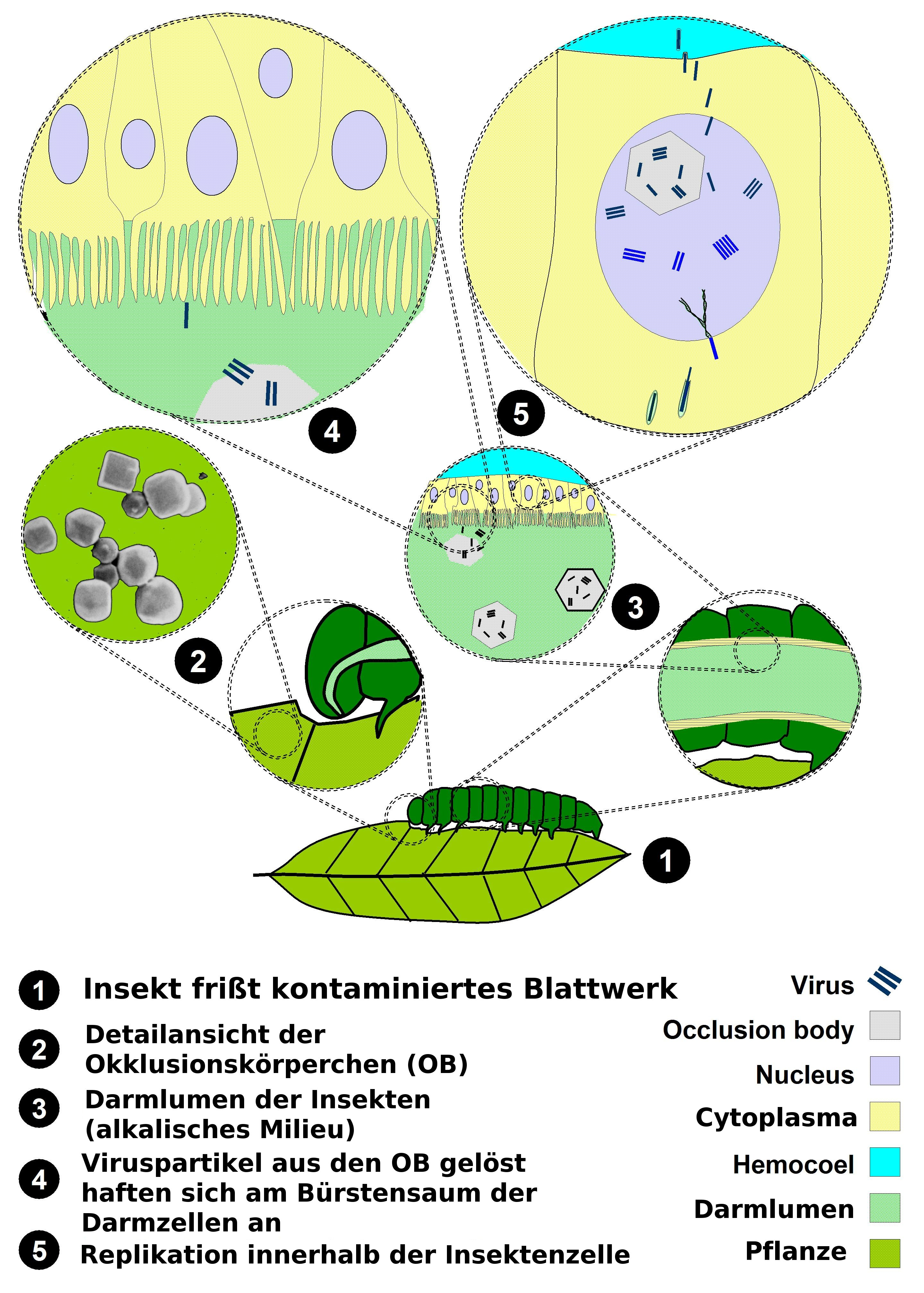 Life Cycle of Baculovirus (German text)